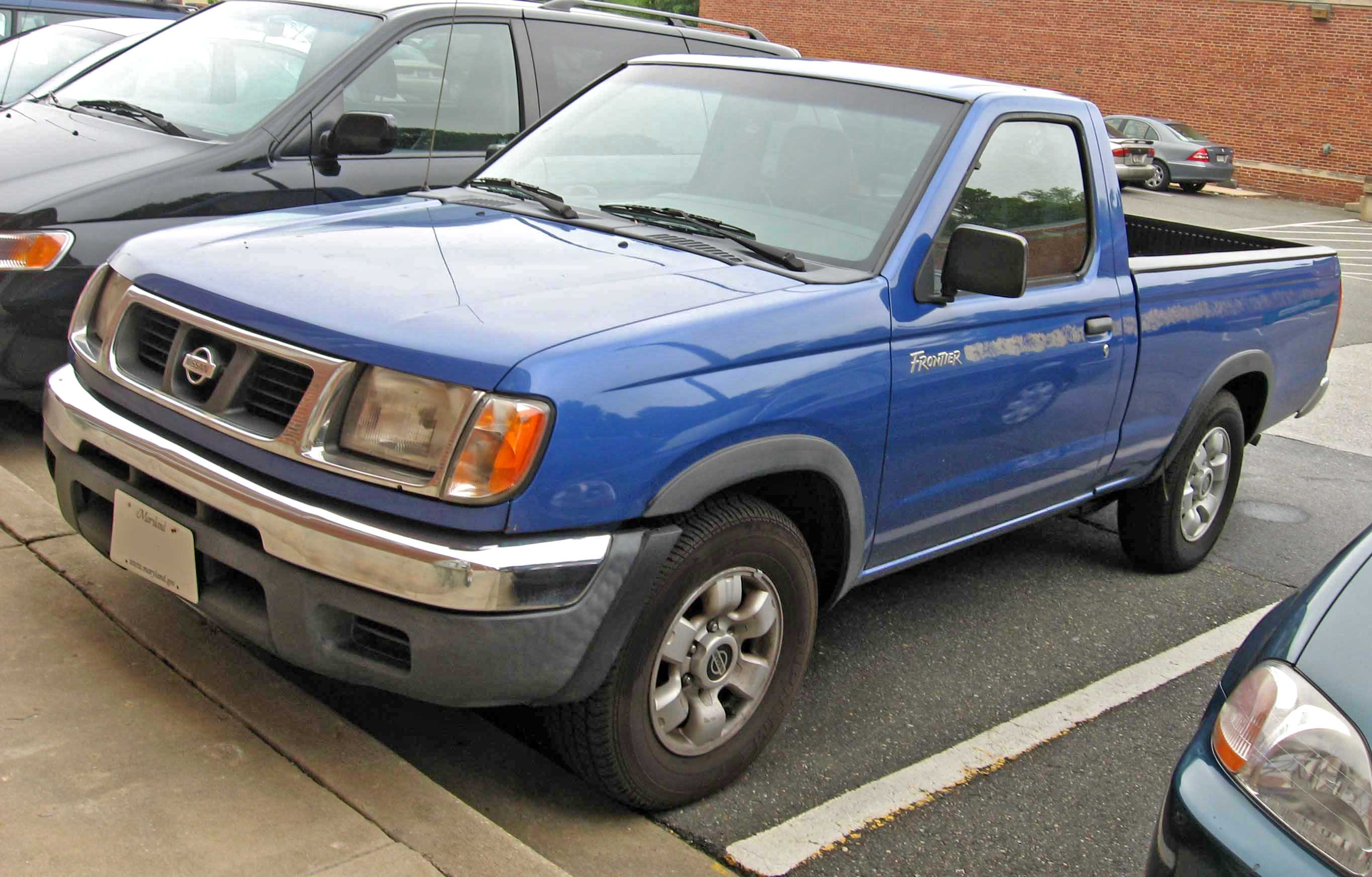 1998-2000 Nissan Frontier photographed in USA.